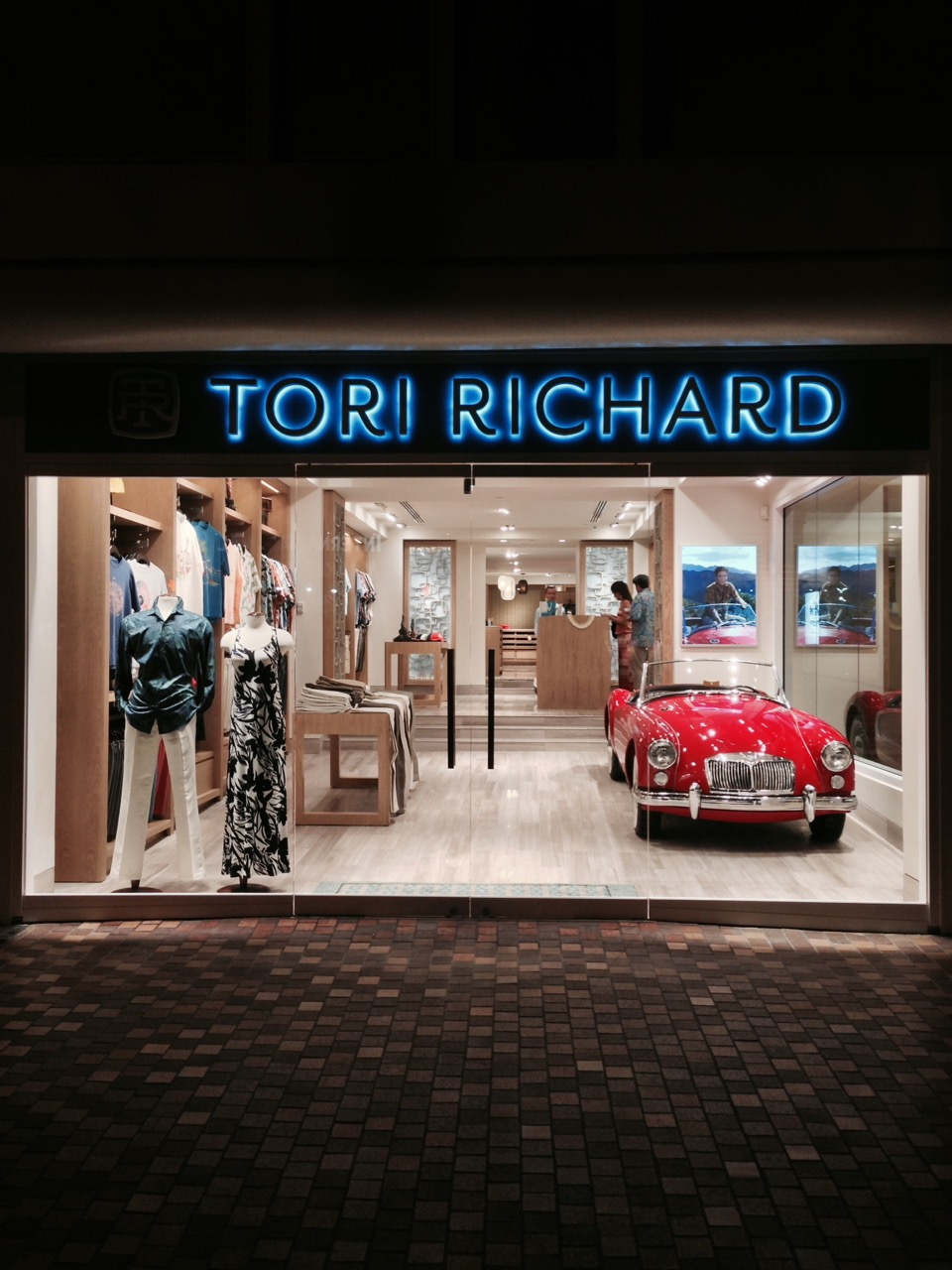 The exterior of a Tori Richard store in Waikiki, Honolulu, Hawaii